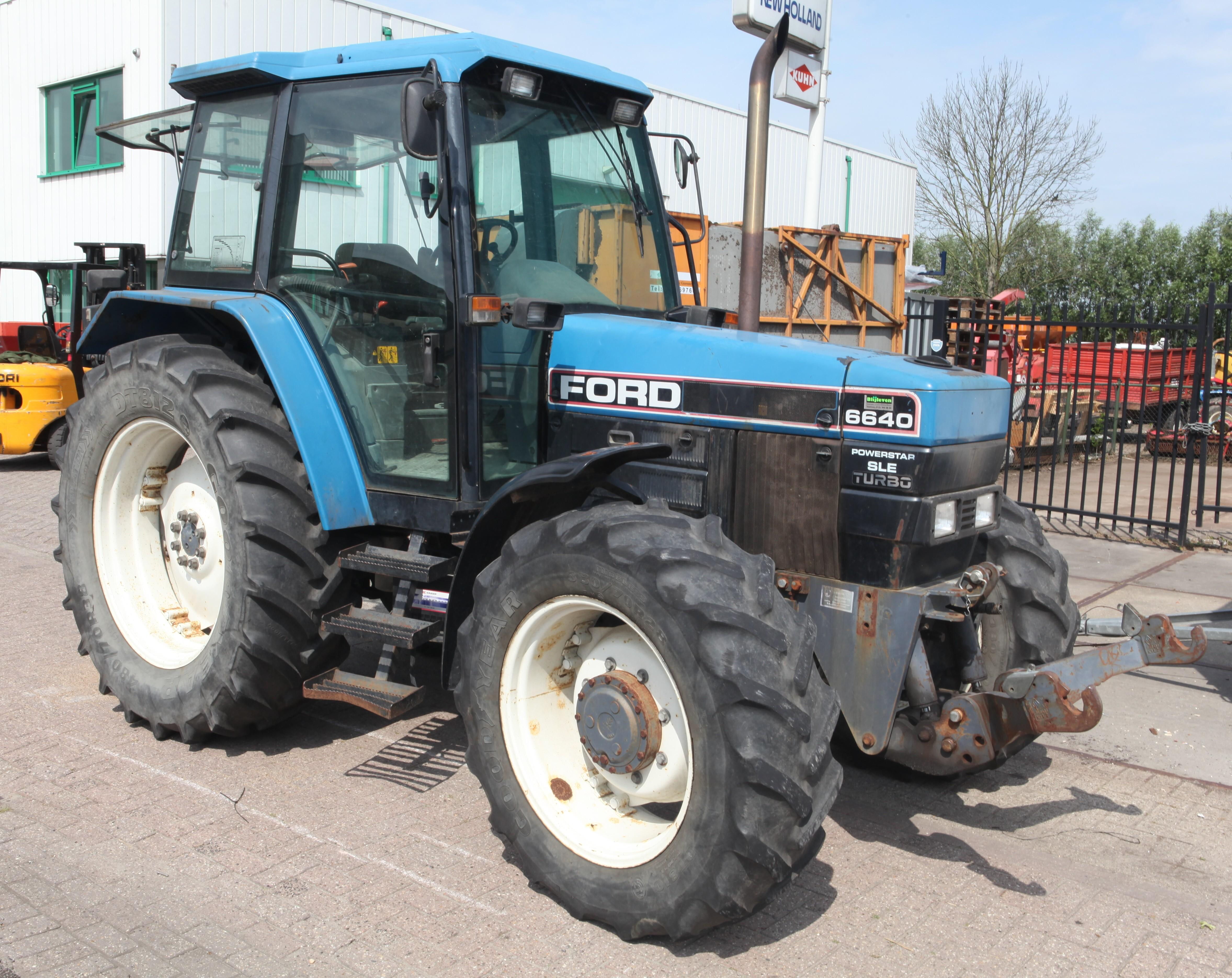 Ford 6640 tractor